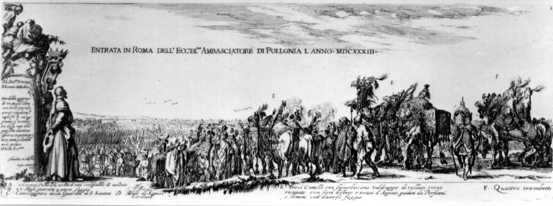 Jerzy Ossoliński's legation entering Rome 1633